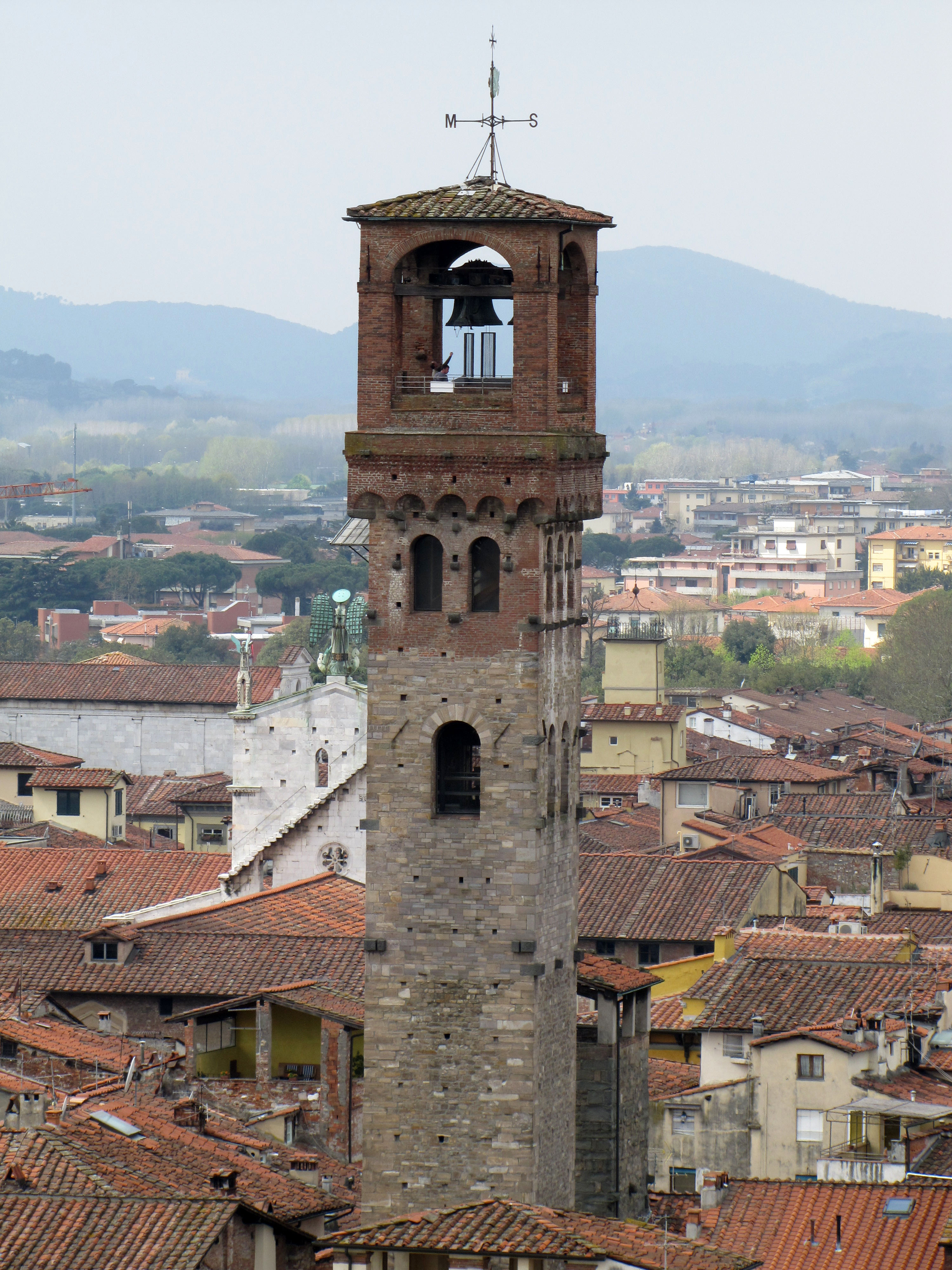 Torre dell'Orologio (Clock Tower), Via Fillungo, Lucca